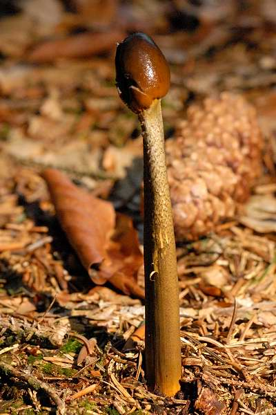 Elaphocordyceps capitata s. l. from Commanster, Belgian High Ardennes. The determination of the species shown in this picture has been verified.